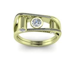 green gold